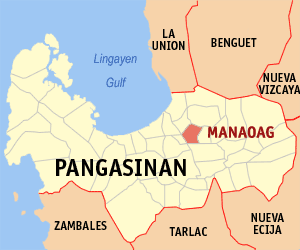 Map of Pangasinan showing the location of Manaoag